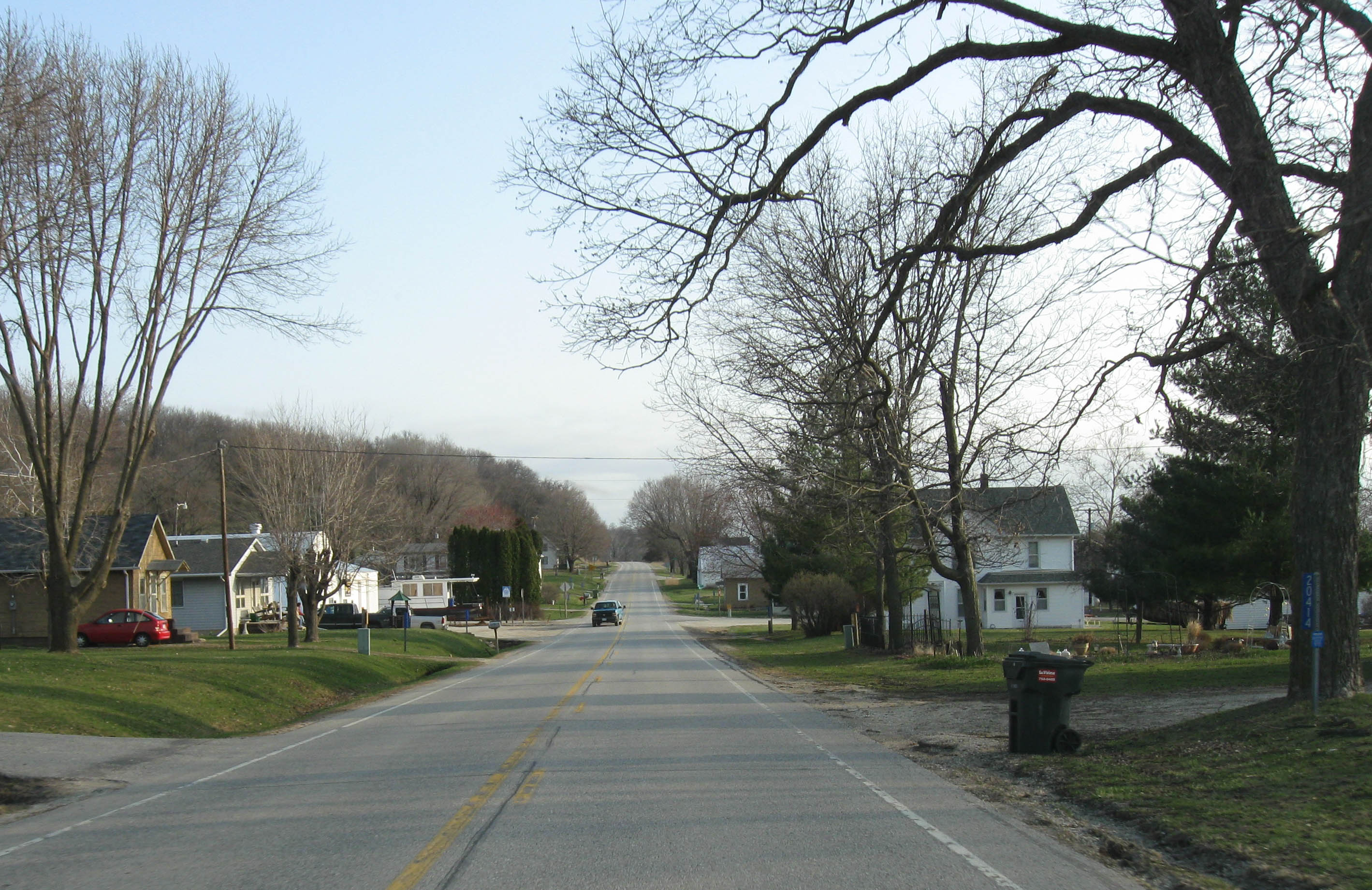 Kingston, Iowa. Bill Whittaker (talk) 14:56, 24 March 2009 (UTC)